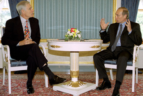 THE KREMLIN, MOSCOW. Vladimir Putin with Ted Turner.